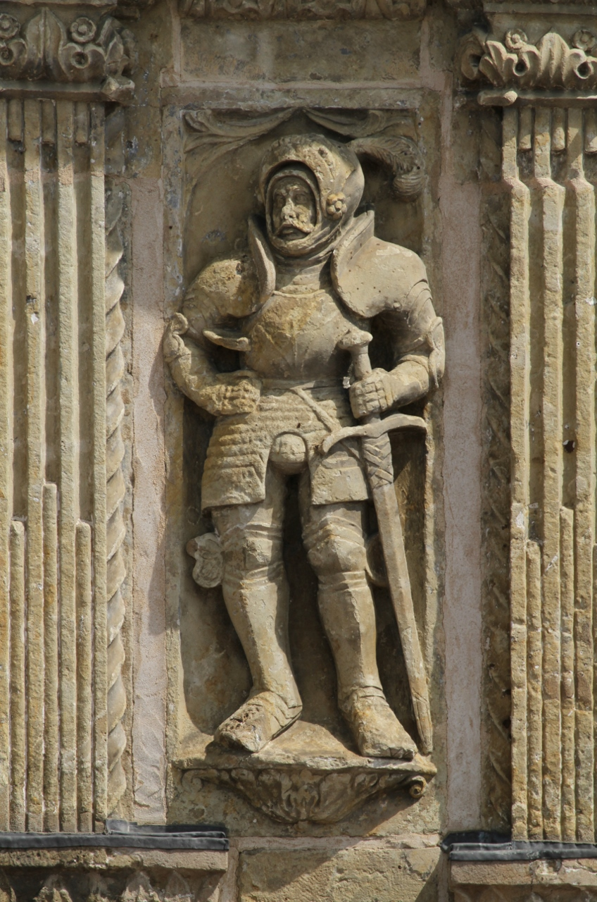 16th-century relief of a knight on the front of Dům U Rytířů, Smetanovo náměstí 110, Litomyšl, Czech Republic